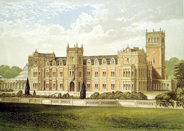 Somerleyton Hall from Morris's Seats of Noblemen and Gentlemen (1880).